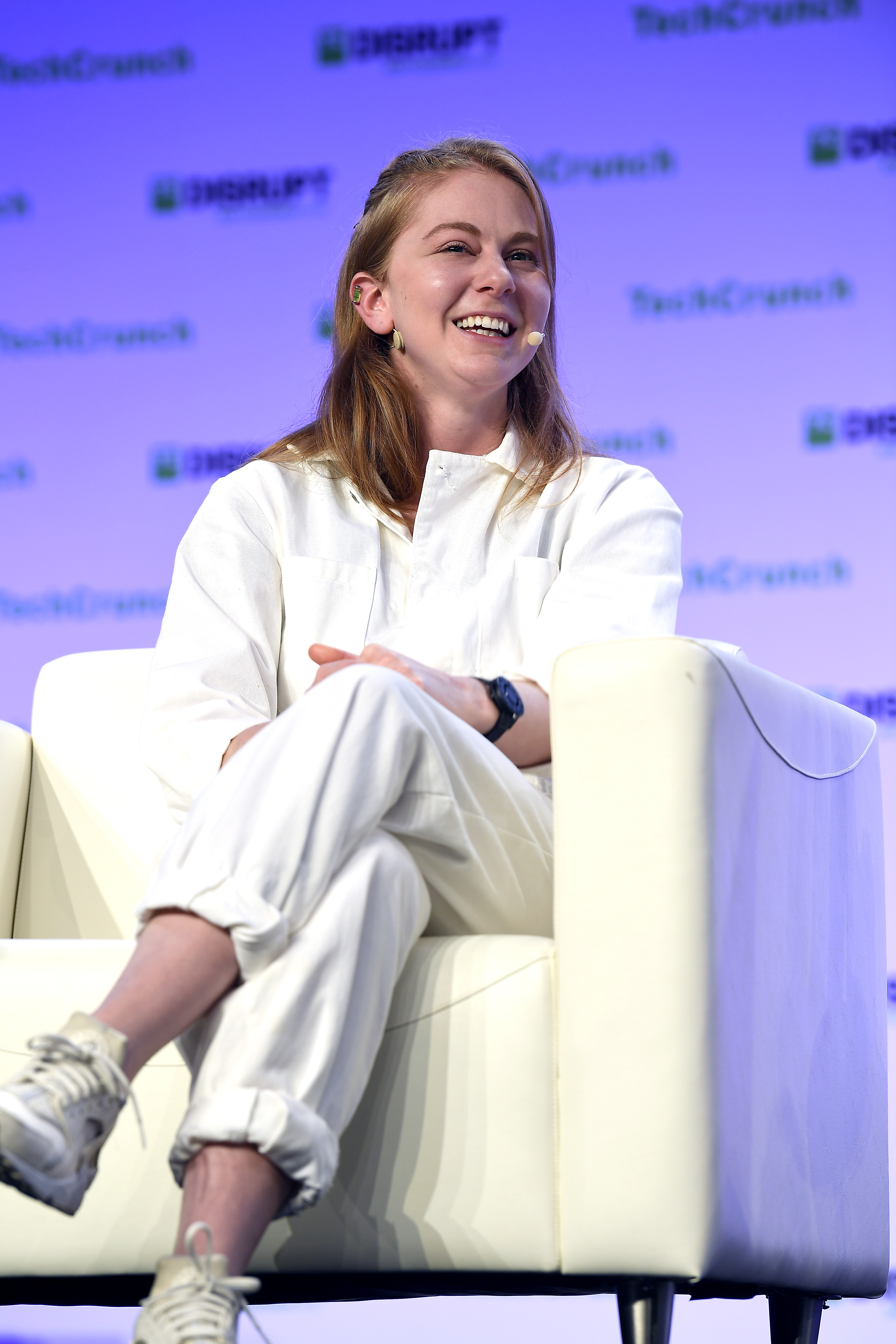 SAN FRANCISCO, CALIFORNIA - OCTOBER 04: This is an Adventure Inc. CEO Simone Giertz speaks onstage during TechCrunch Disrupt San Francisco 2019 at Moscone Convention Center on October 04, 2019 in San Francisco, California. (Photo by Steve Jennings/Getty Images for TechCrunch)